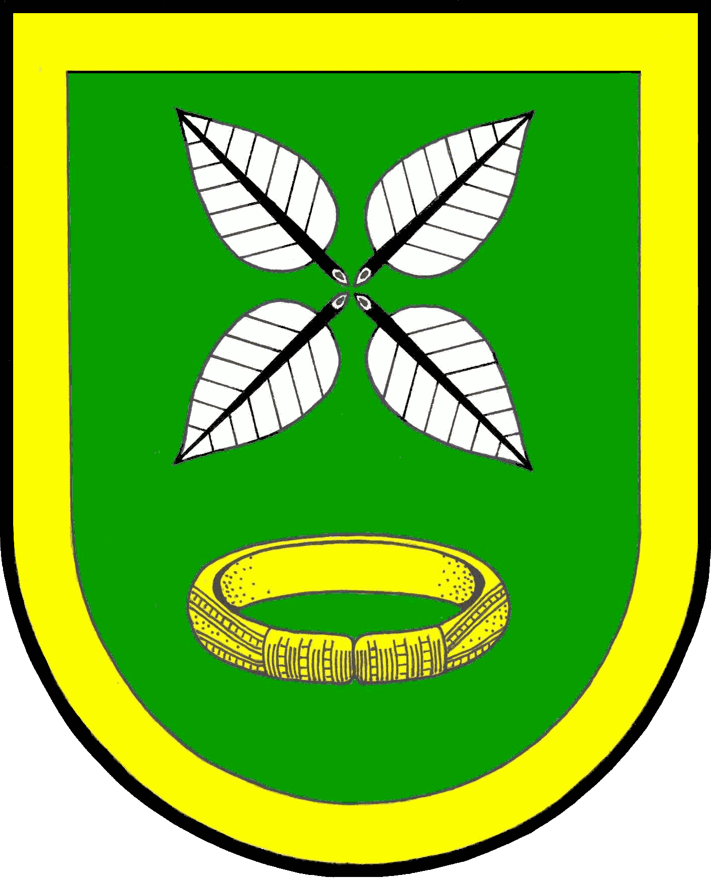 Coat of arms of the municipality Basedow in Schleswig-Holstein, Germany.